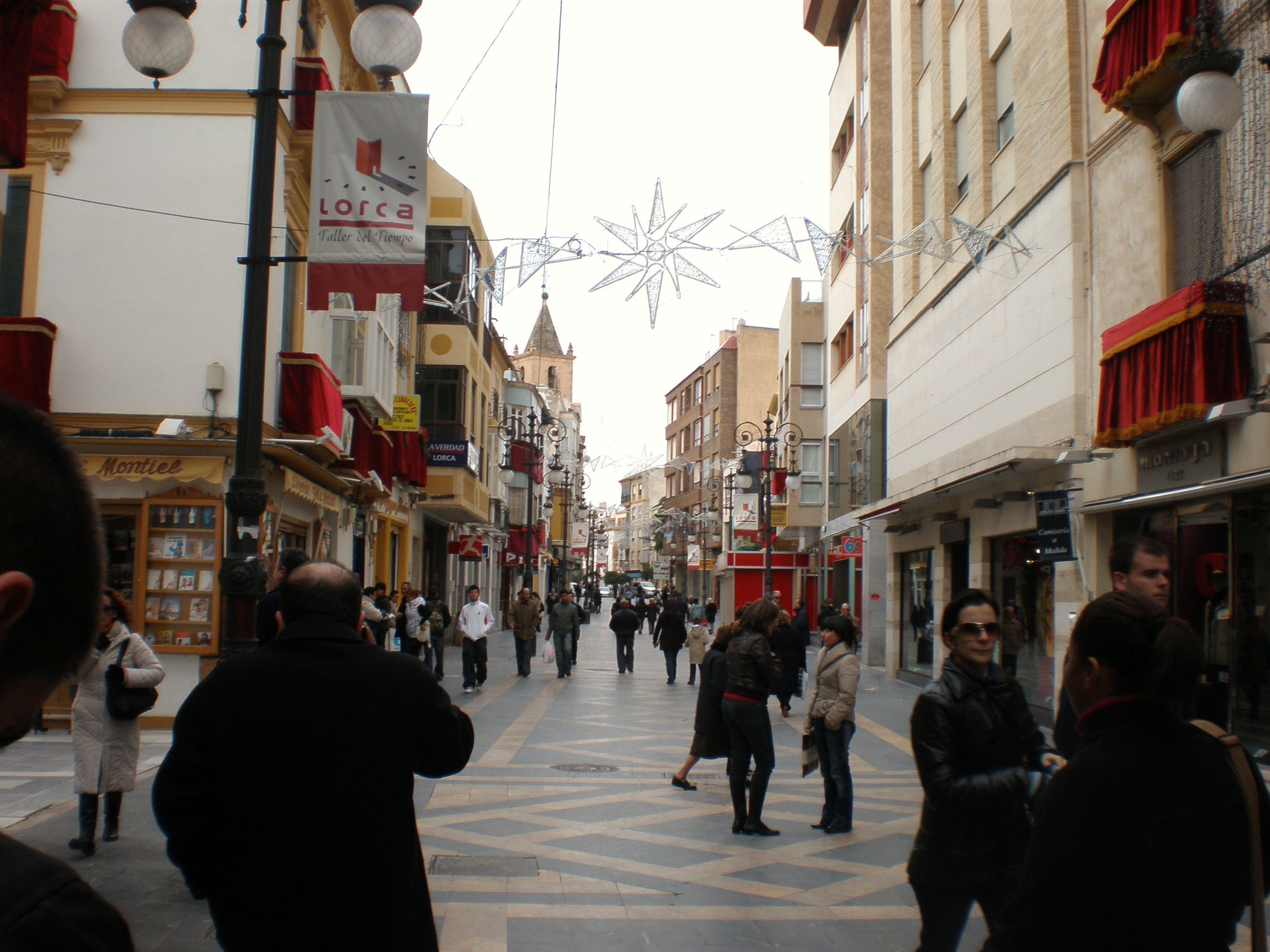 Corredera street